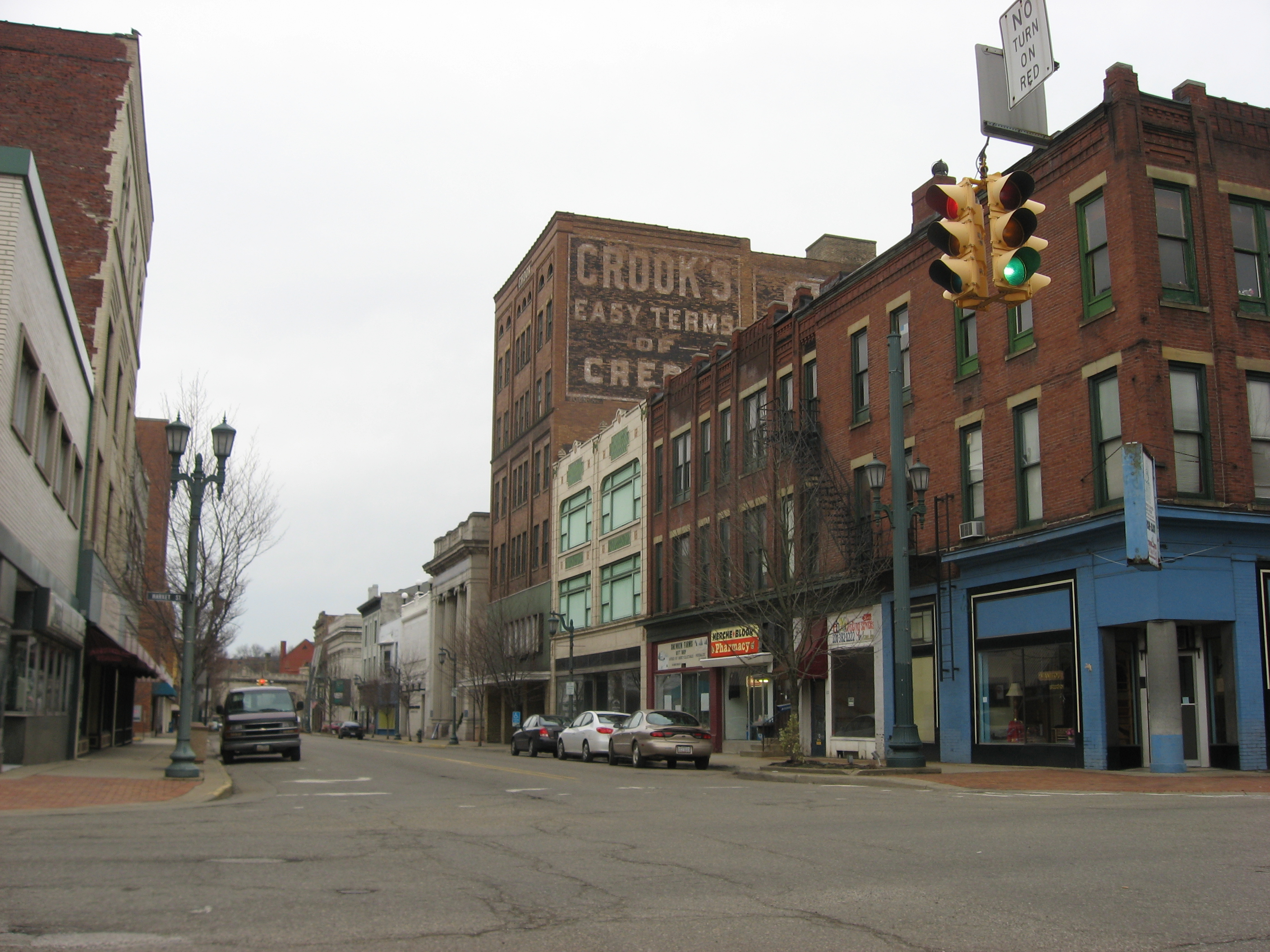 Looking eastward along Fifth Street from the Market Street intersection in downtown East Liverpool, Ohio, United States. The block pictured is part of the East Fifth Street Historic District, which is listed on the National Register of Historic Places.